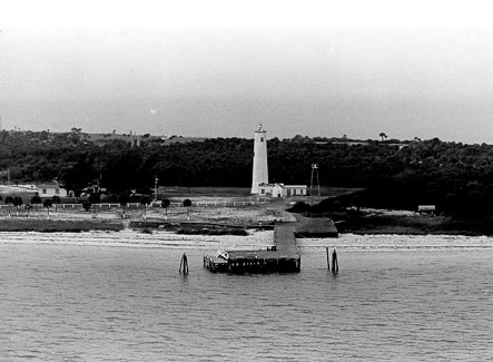 U.S. Coast Guard Archive Photo of Egmont Key Light without Lantern Room, near Tampa Bay, Florida